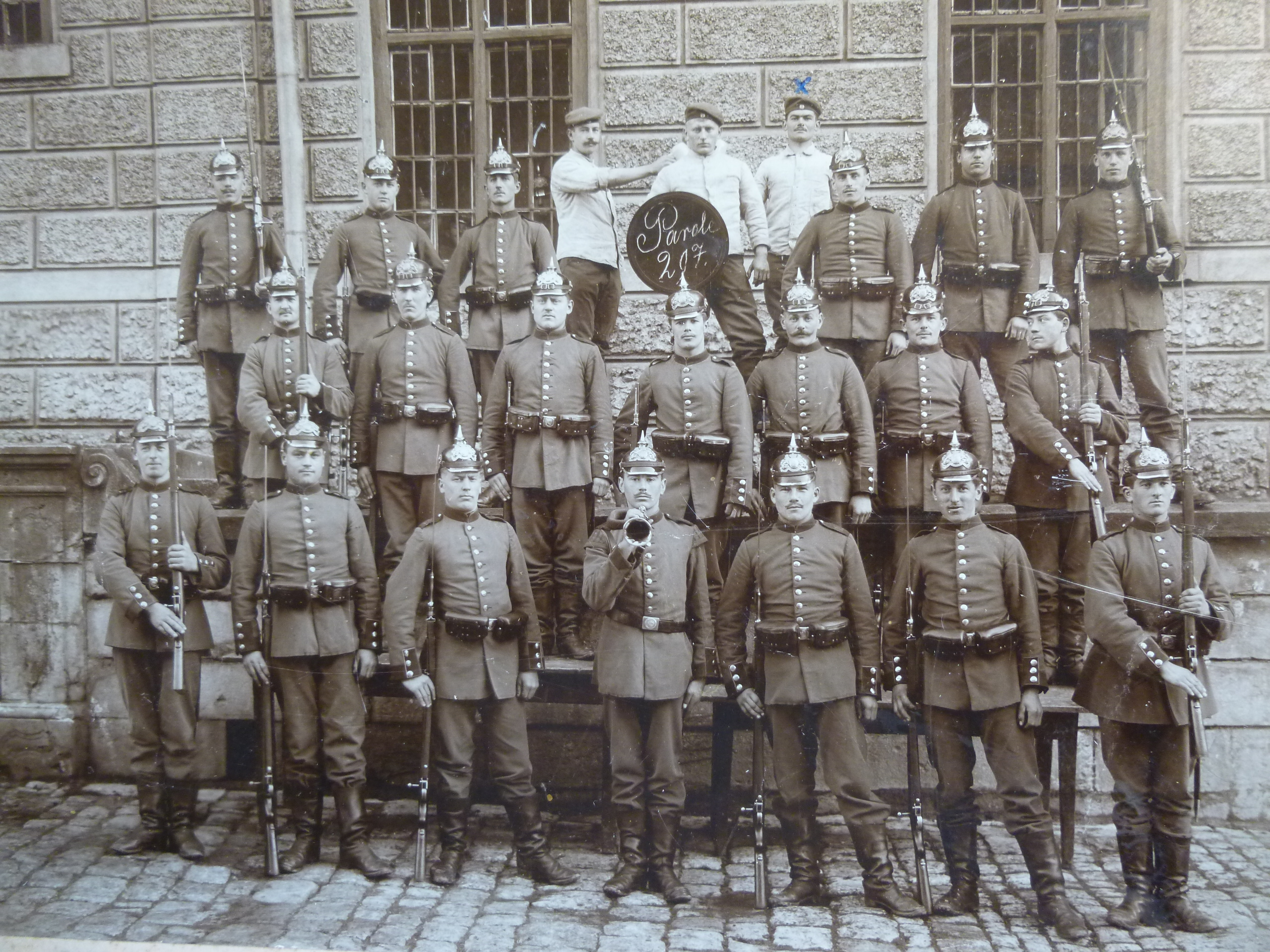 Royal Bavarian 12th Infantry Regiment 1913